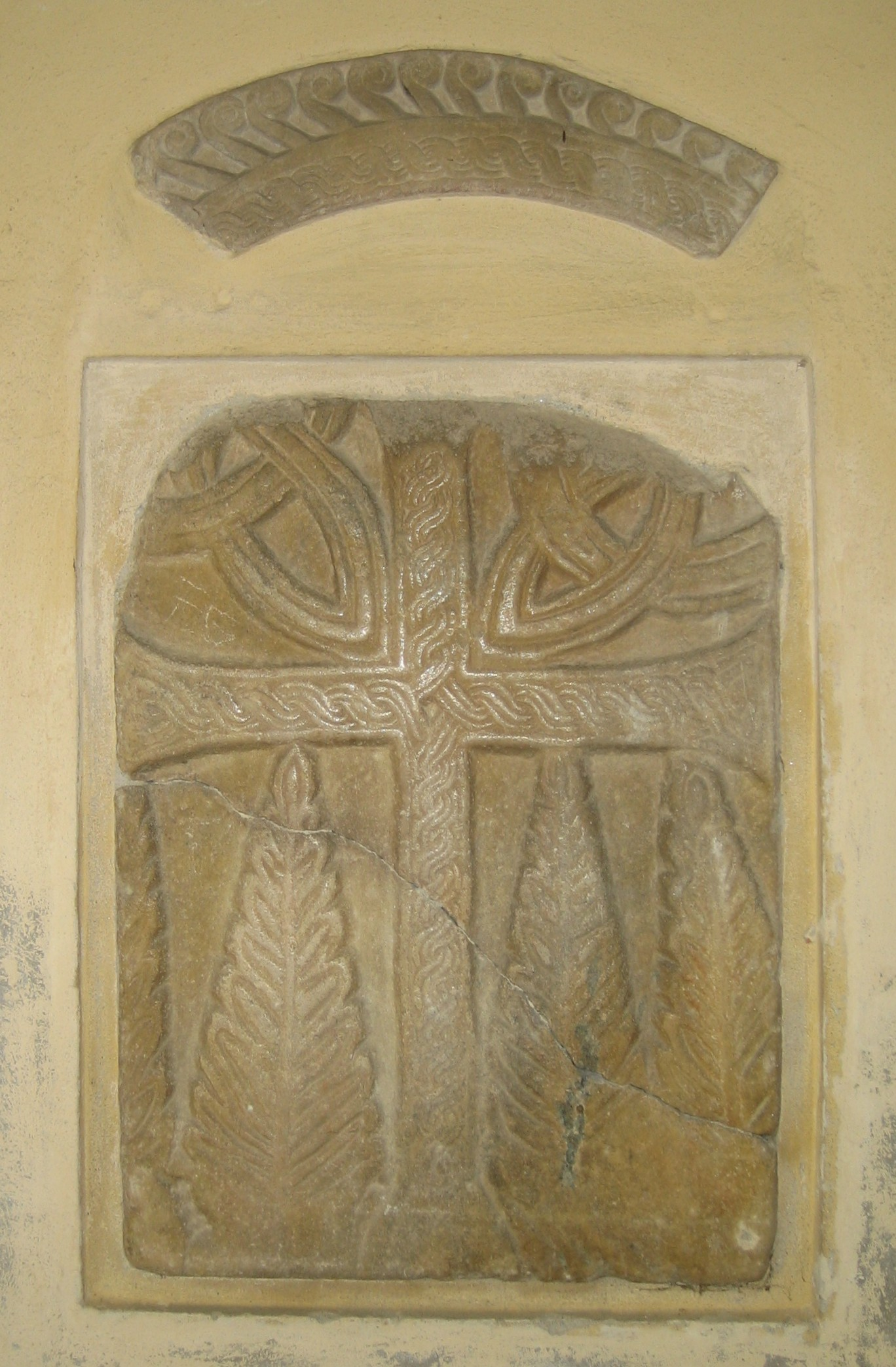 Bas-relief from the Pre-Romanesque church of Millstatt.